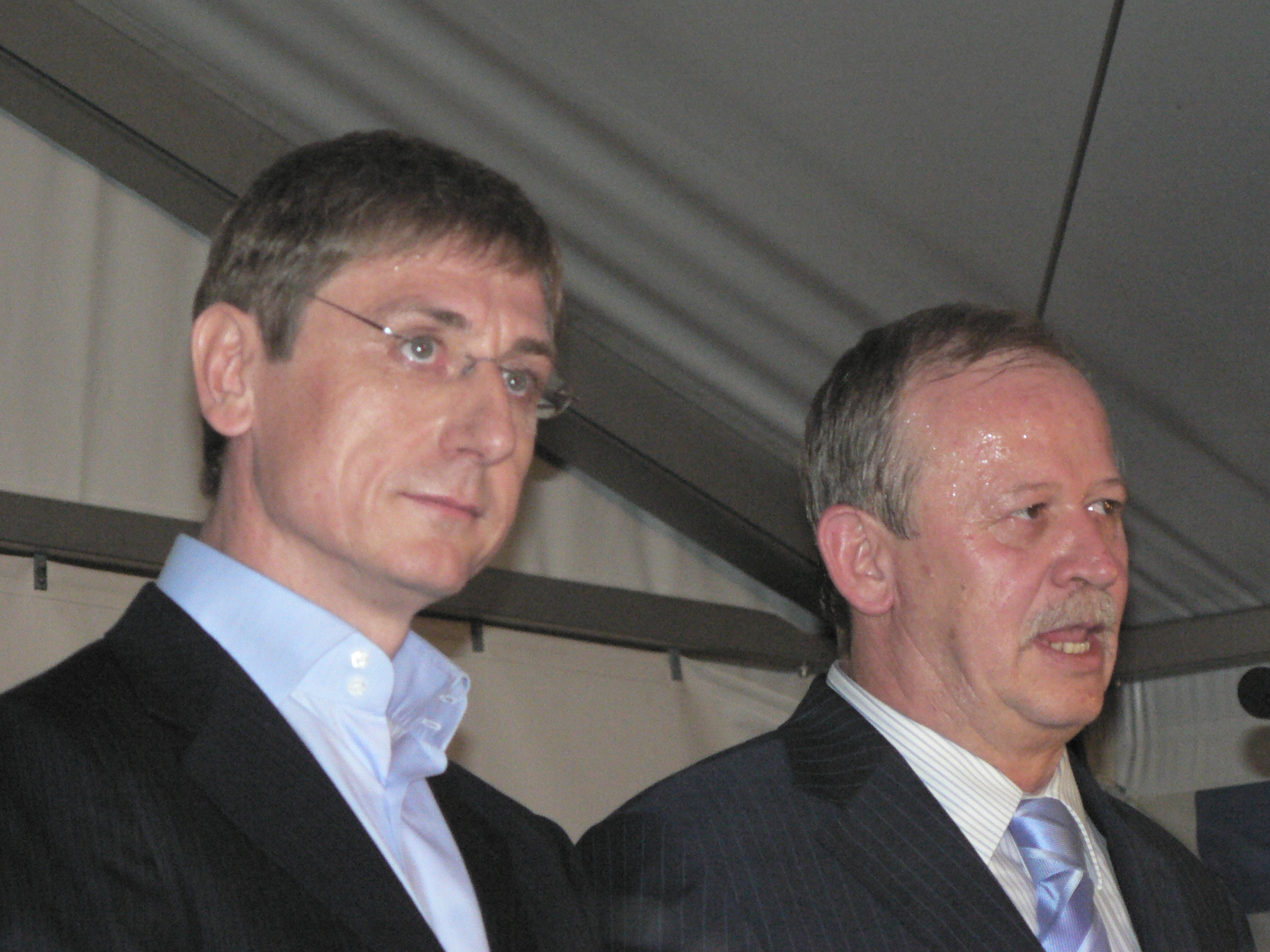 Live on the 23h of April, 2006. Budapest, the Liberális Sátor („Liberal Tent”) in front of the Town House. The Magyar Szocialista Párt (Hungarian Socialist Party) won the election. Ferenc Gyurcsány, later PM of Hungary and Gábor Kucze celebrating with the liberal-socialist crowd. Slogan: Rajtunk múlik ! (It’s up to us !) ©© Published under Creative Commons in the Metapolisz DVD line. All of the photos and vids in the Metapolisz DVD line are under Creative Commons and can be used even for commercial – for profit – purposes. Recommended Citation Derzsi Elekes Andor: Metapolisz DVD line